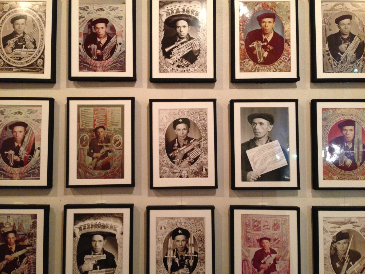 Some work of Aleksander Pavlovitch Lobanov